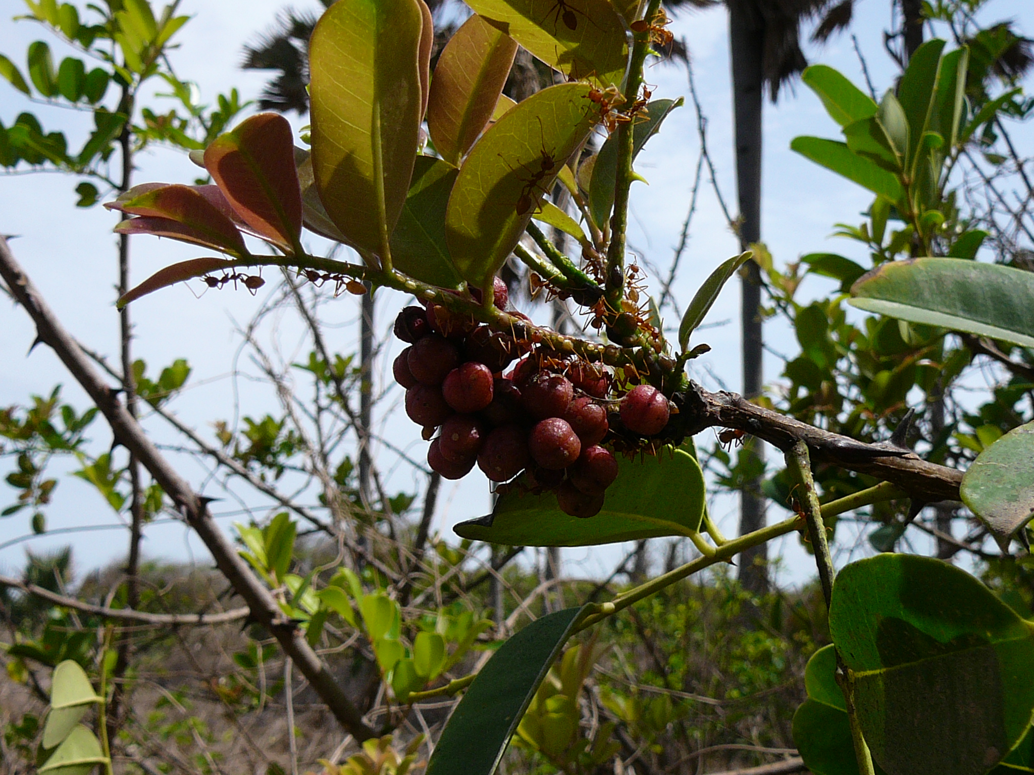 Zanthoxylum zanthoxyloides